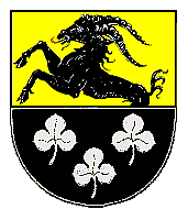 Coat of Arms of Großostheim